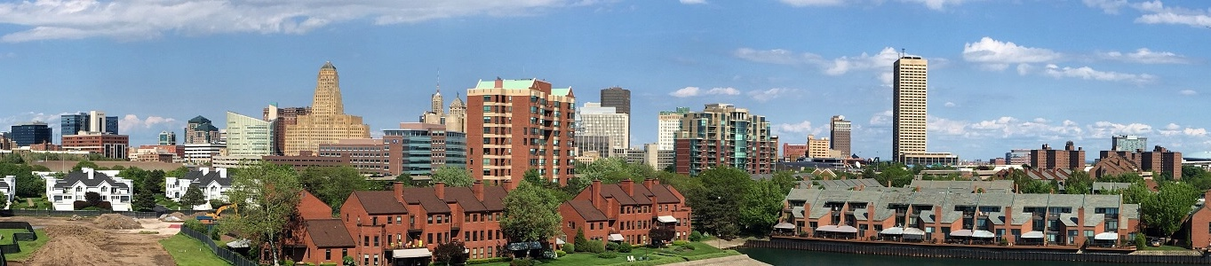 Skyline of Buffalo NY